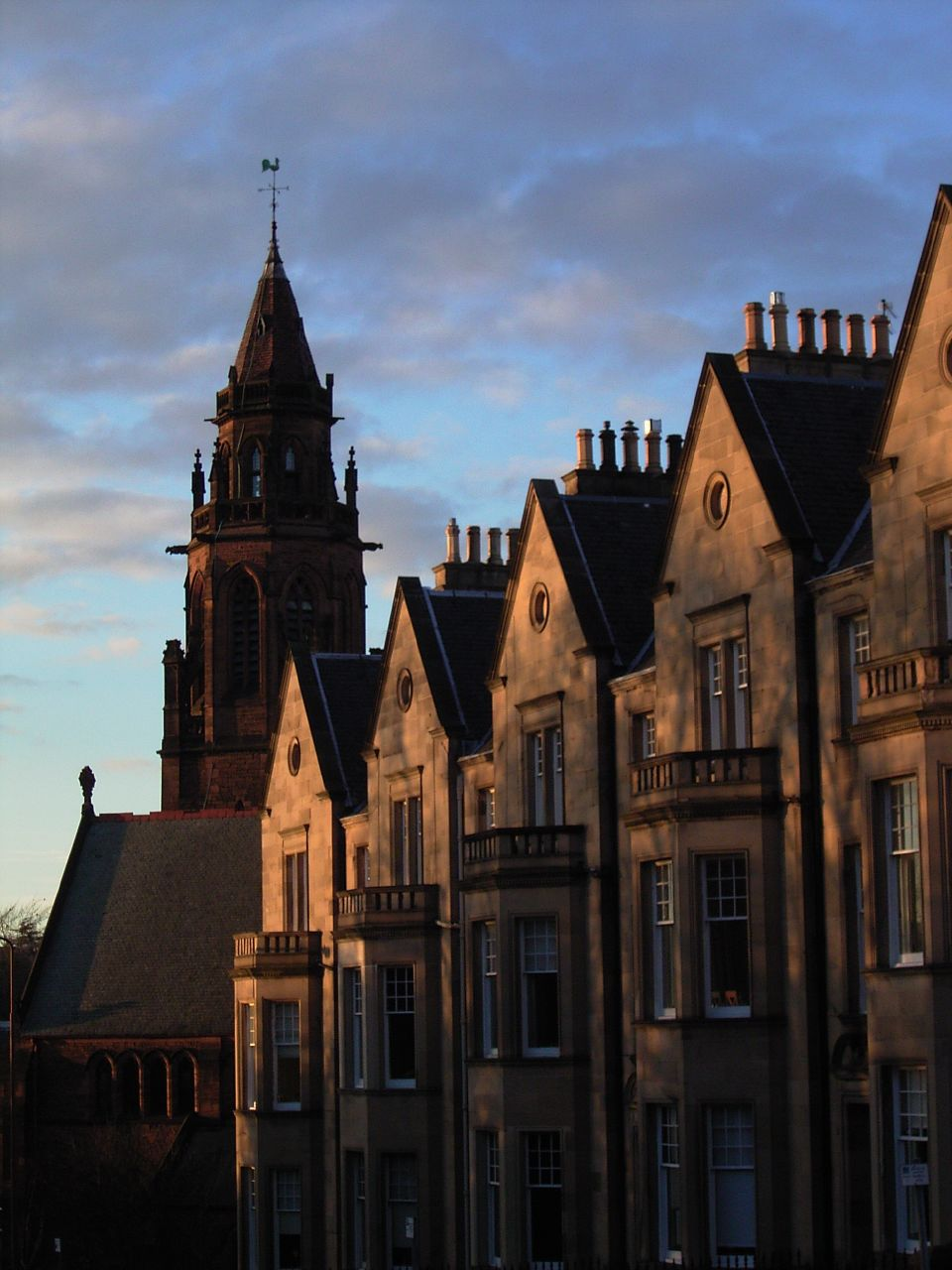 Edinburgh's New TownNew Town 02